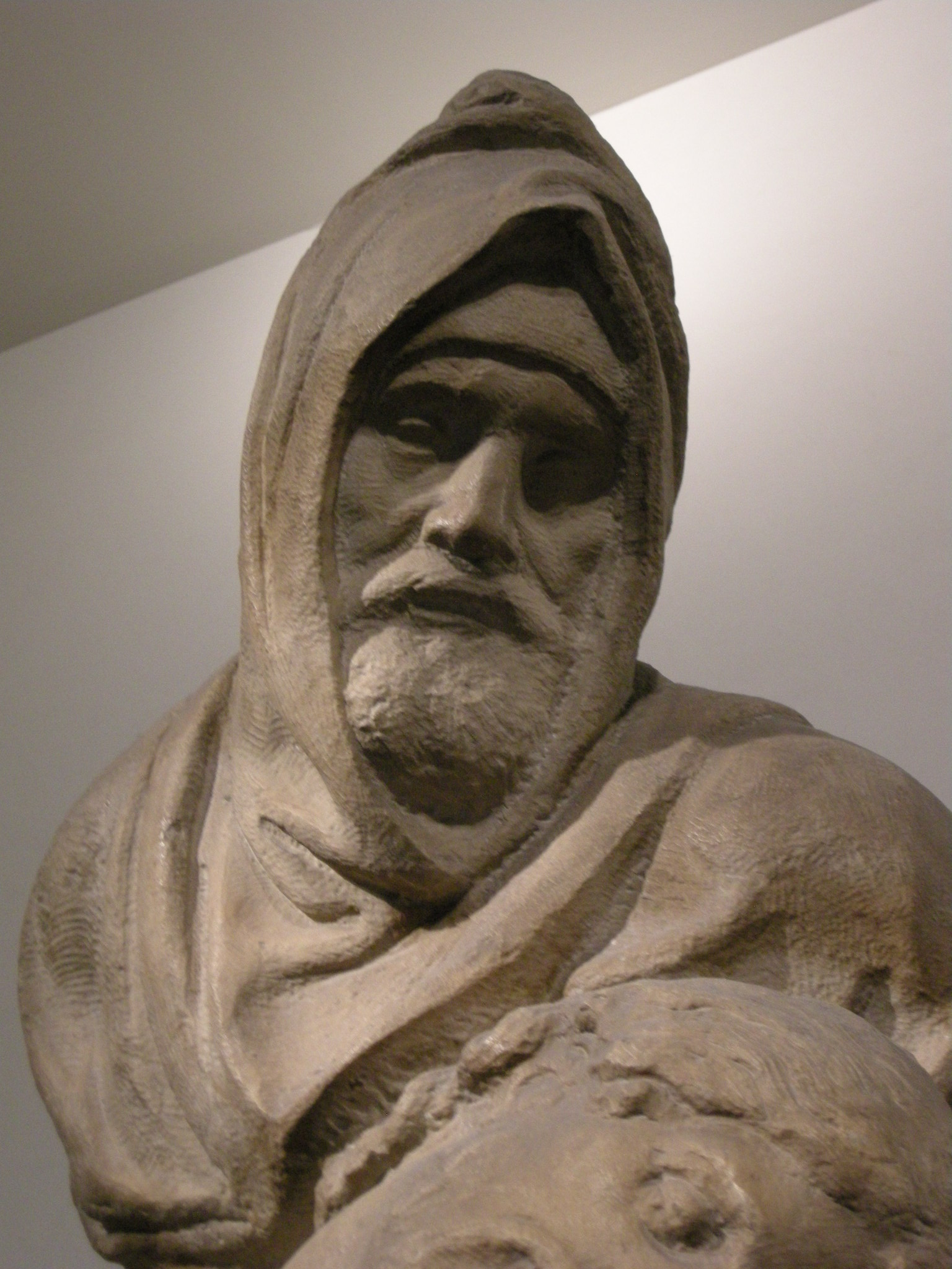 Detail of the Pieta Bandini by Michelangelo. This face of Joseph of Arimathea is thought to be a likeness of the sculptor.